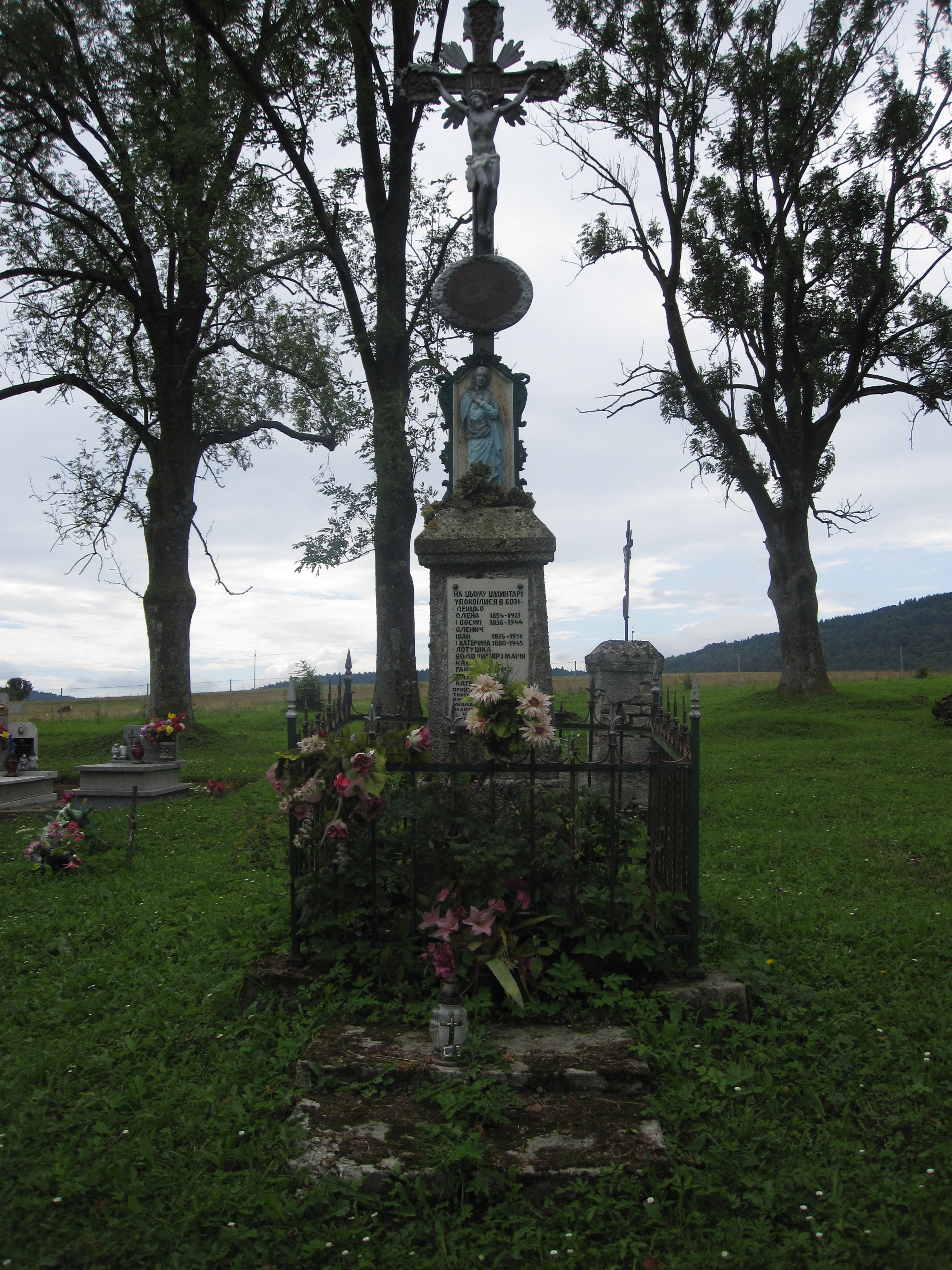 Church of St. Demetrios in Radoszyce